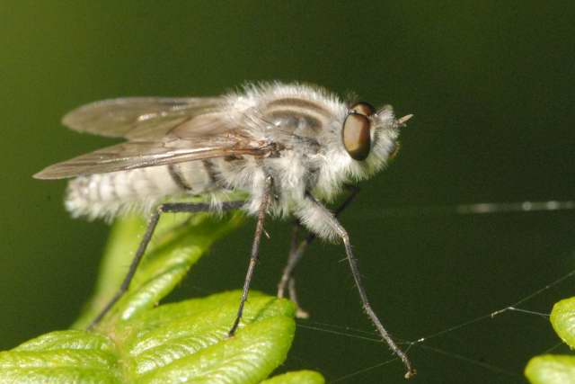 Cliorismia ardea from Commanster, Belgian High Ardennes .